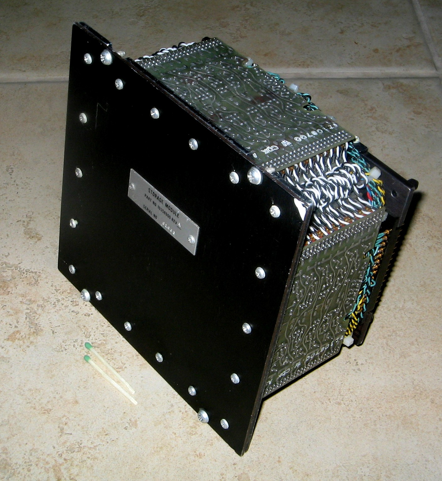 A core memory module from a CDC 6000 series computer. This particular item comes from a CDC CYBER 73, has serial number 61633, and a label on its back declares its production date as 13. February 1973. The module contains (as far as I know) 12 planes of 4096 bits each, making together 4096 12-bit words.